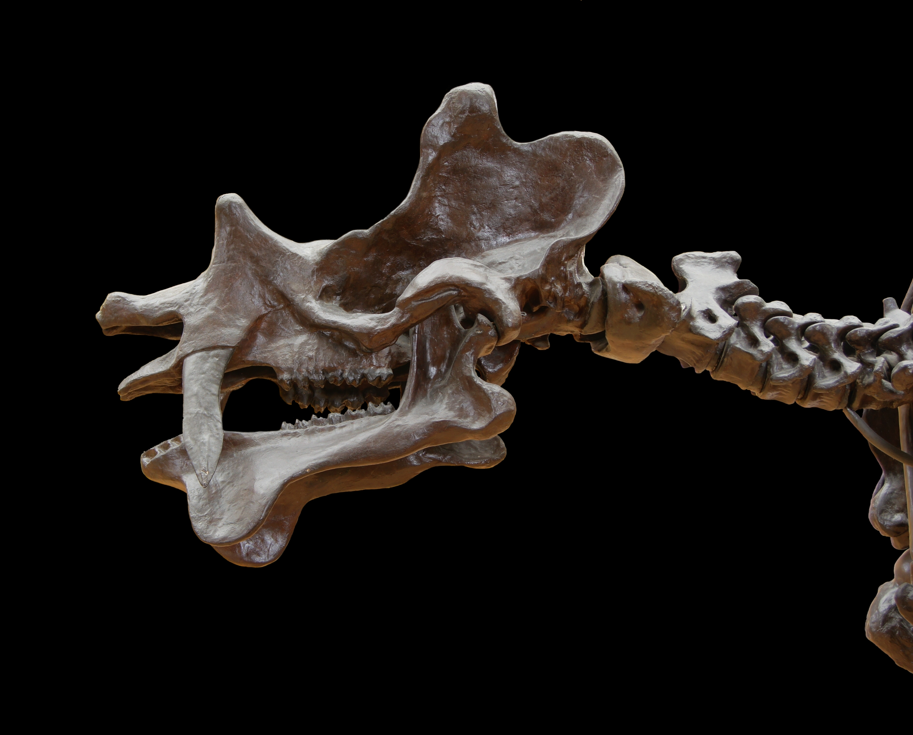 Cast of Uintatherium anceps (Leidy, 1872) - syn. Dinoceras mirabile (Marsh 1872) skull, neck vertebrae. Gift of Professor Marsh to the Museum National d'Histoire Naturelle of Paris. cat.6, 1889 Restoration made by Pr. Marsh (1831-1899) Stage : middle eocene Locality : near Fort Bridger, Wyoming, USA. Belonging to the Yale college museum in New-Haven, Connecticut.